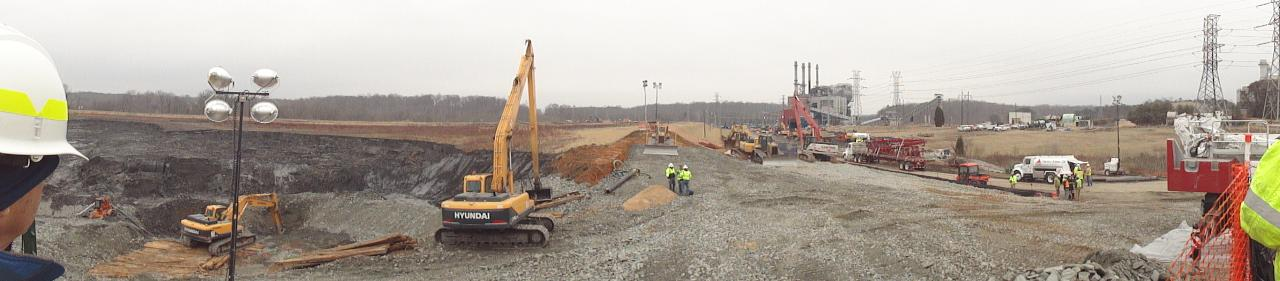 View of cleanup activities at the site of the 2014 Dan River coal ash spill. Seen on the left is the collapsed impoundment which caused a spill of 39,000 tons of coal ash into the Dan River. Seen in the background is the closed power plant.